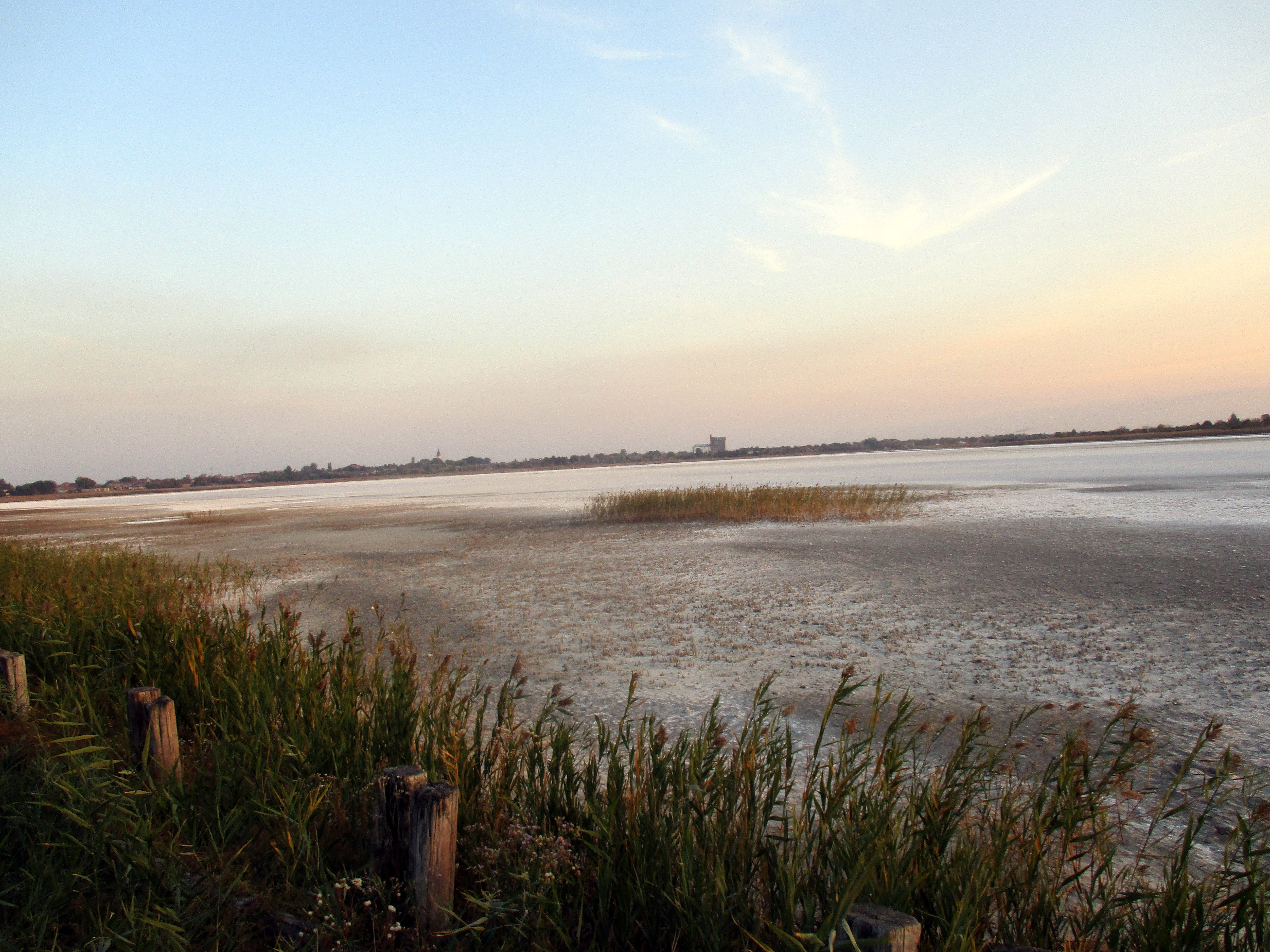 Salt and dry lake Rusanda with village of Melenci